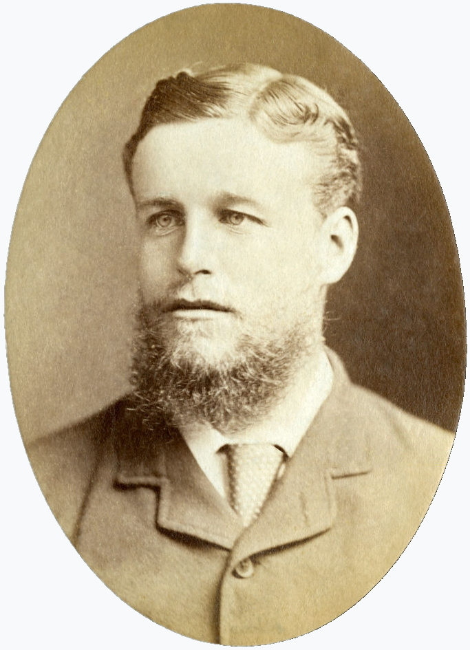 Cricketer Francis MacKinnon, the 35th MacKinnon of MacKinnon, who played for Cambridge University and Kent County Cricket Club and was also a member of The Lord Harris XI cricket team, which toured Australia and New Zealand, circa 1878-1879.